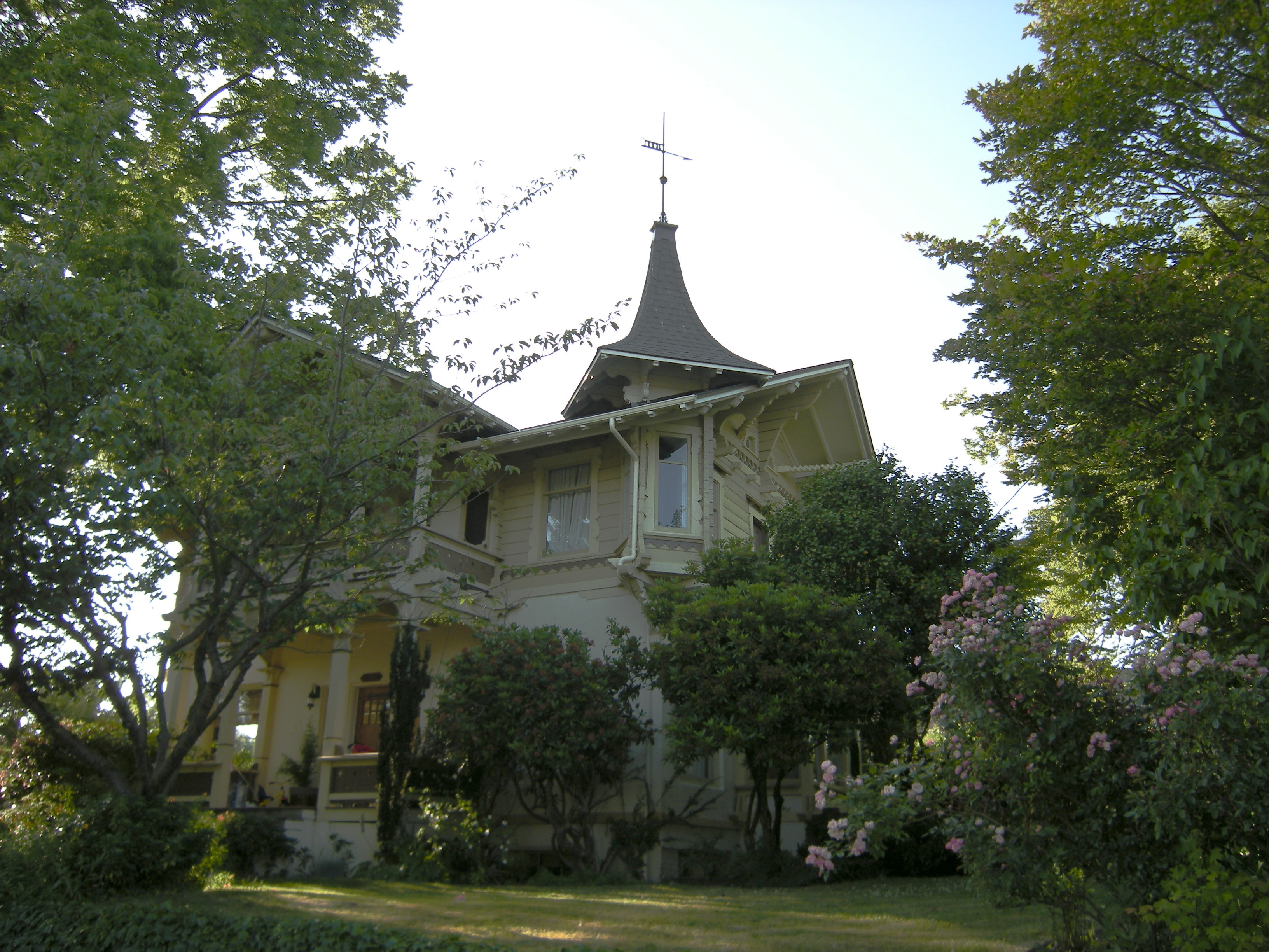 Norvell House, 3306 NW 71st St, Ballard, Seattle, Washington. The house has city landmark status.